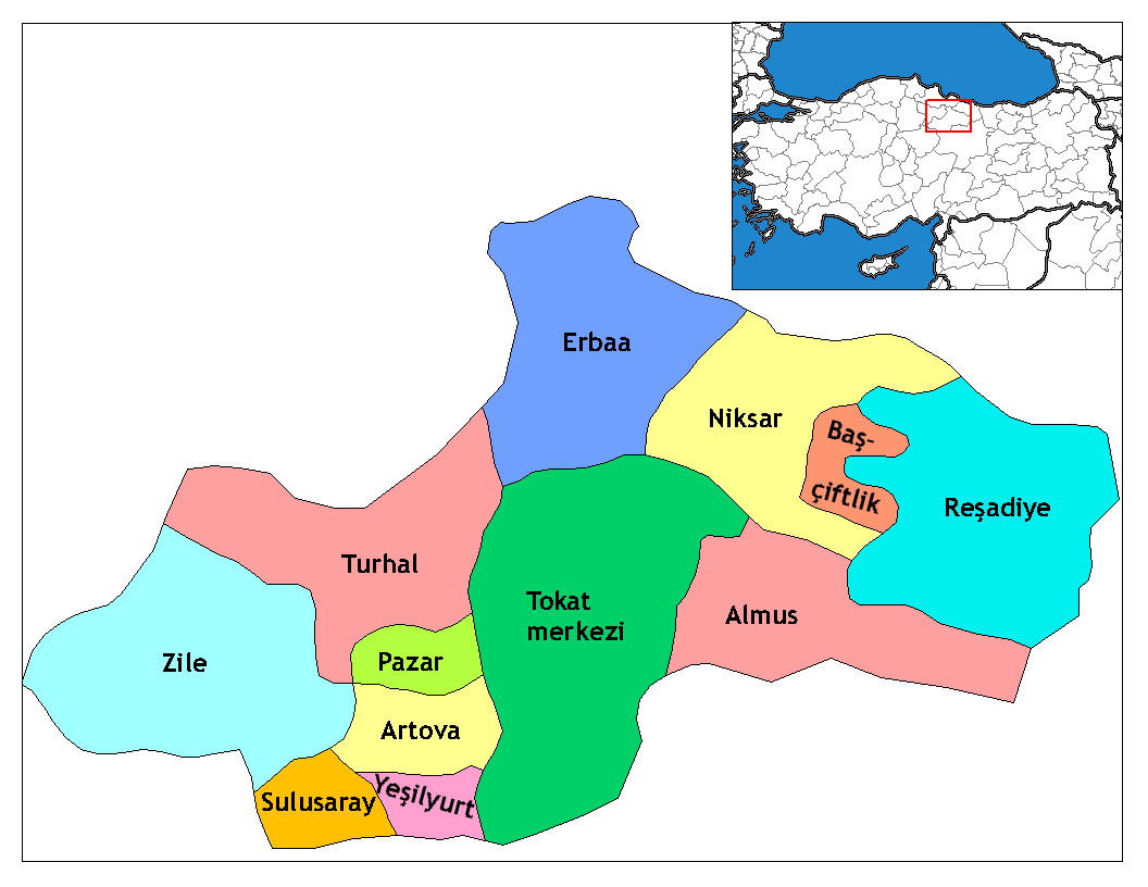 Map of the districts of Tokat province in Turkey. Created by Rarelibra 17:52, 4 December 2006 (UTC) for public domain use, using MapInfo Professional v8.5 and various mapping resources. Edited by One Homo Sapiens Corrected text where İ,Ş,ı,ğ,or ş occurs in name. Source: [statoids-com]. Increased font size and enhanced color differences among adjacent districts.